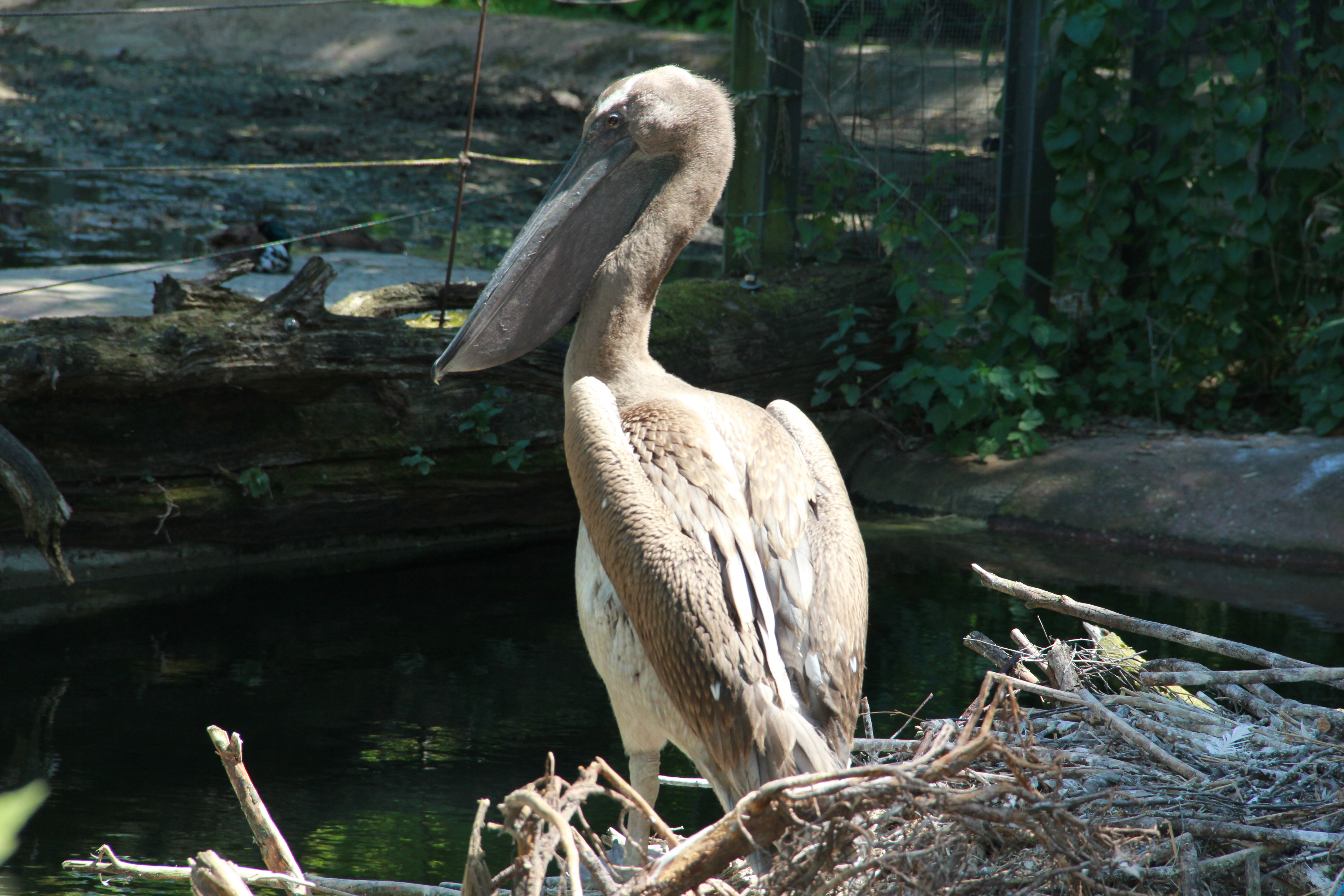 Pelican in the Antwerp ZOO